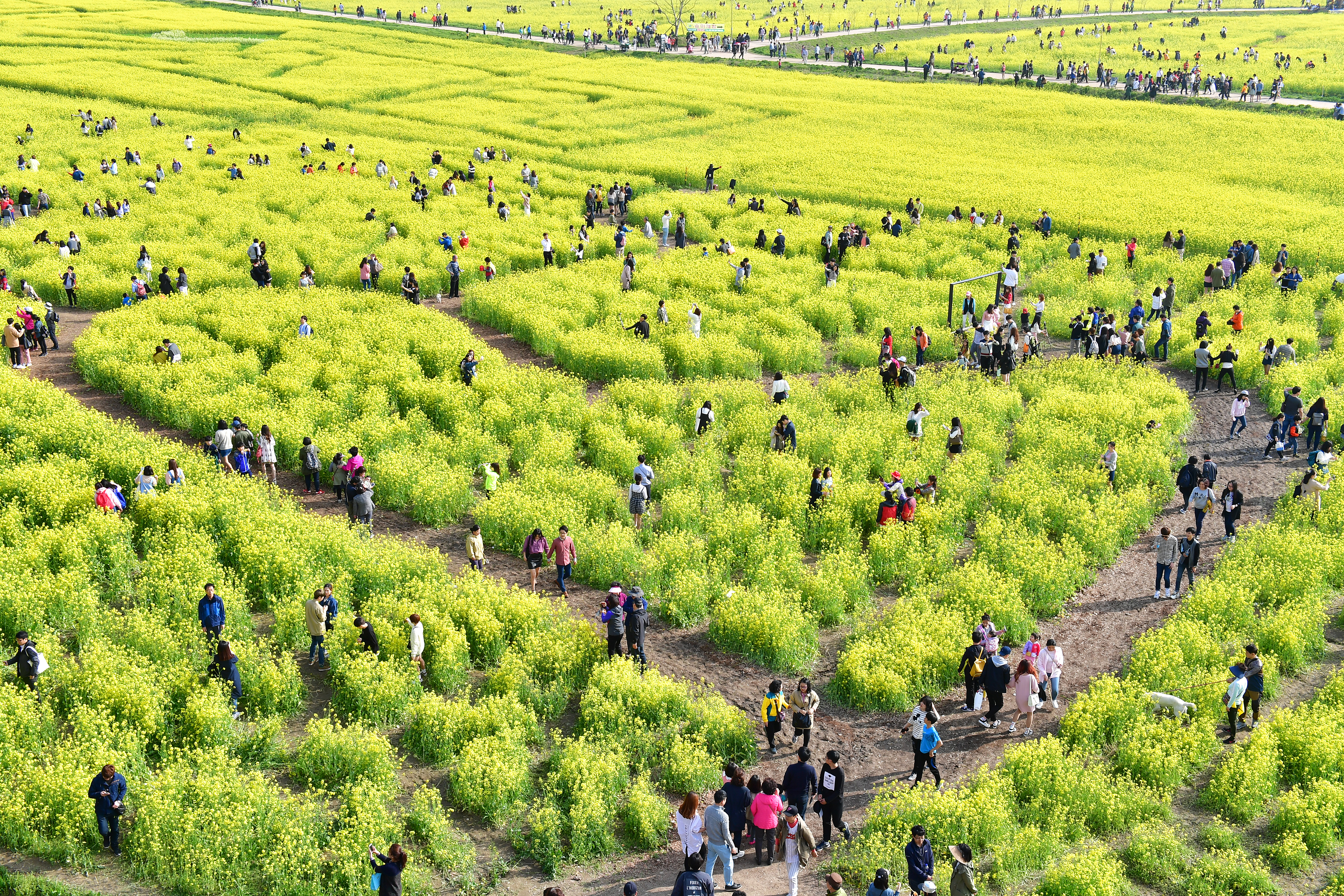 With a length of 7.62 km and a size of 2.66 ㎢, designated as Natural Monument No. 179, Daejeo Ecological Park is a habitat for migratory birds at the Nakdong River Estuary. The estuary was chosen as a trial project for the Four Major Rivers Restoration Project. The sports facilities were partially built on the upper and lower parts of the park only, while the rest of the park underwent a restoration of its wetlands and natural grassland. In the garden inside the park, you can find a large-scale habitat for prickly water lilies, which are part of the Endangered Species Level II classification. Many interesting festivals, such as the Nakdong Riverside Cherry Blossom Festival, the Busan Nakdong River Canola Flower Festival, and the Daejeo Tomato Festival are held around this park every year.